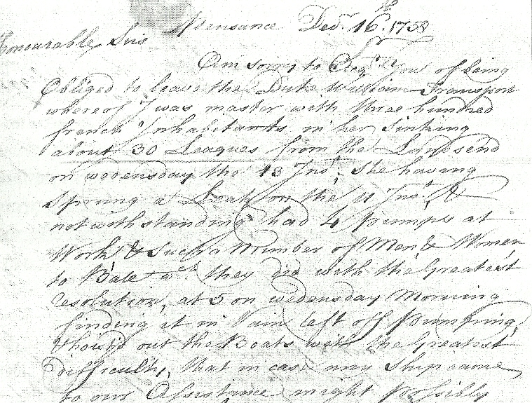 Letter by WIlliam Nichols to the Admiralty, dated december 16th, 1758. Original is kept in the National Maritime Museum in London.